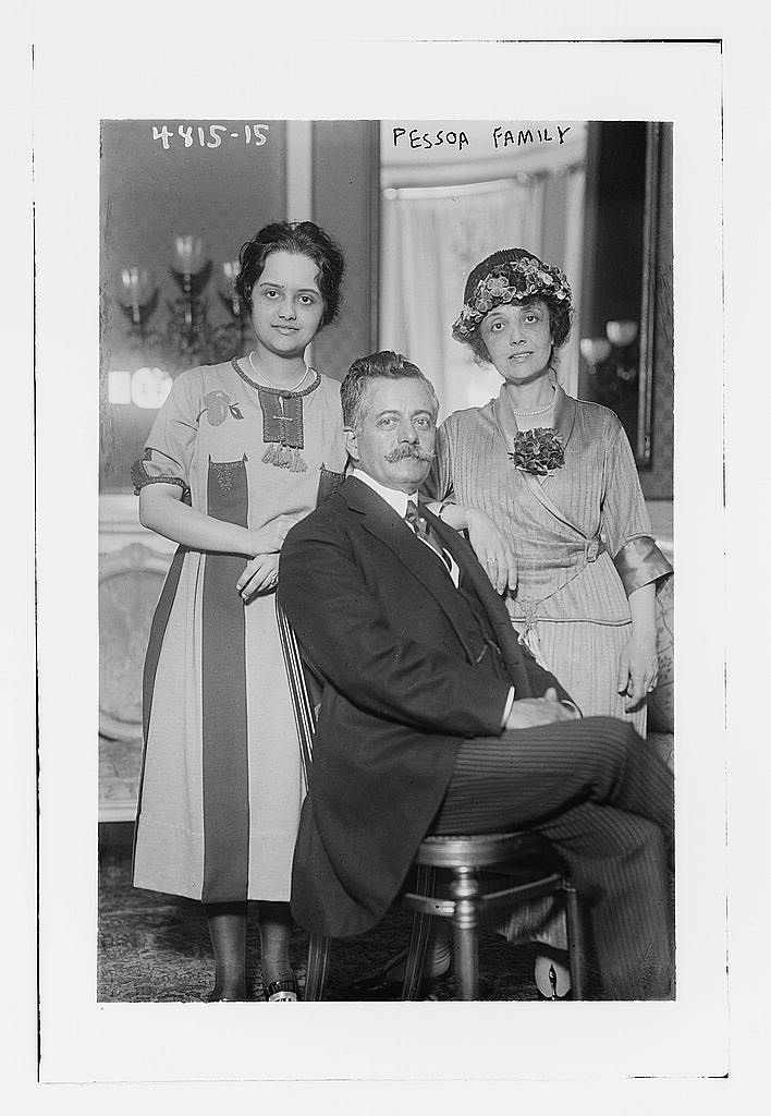 Epitácio Pessoa family circa 1919